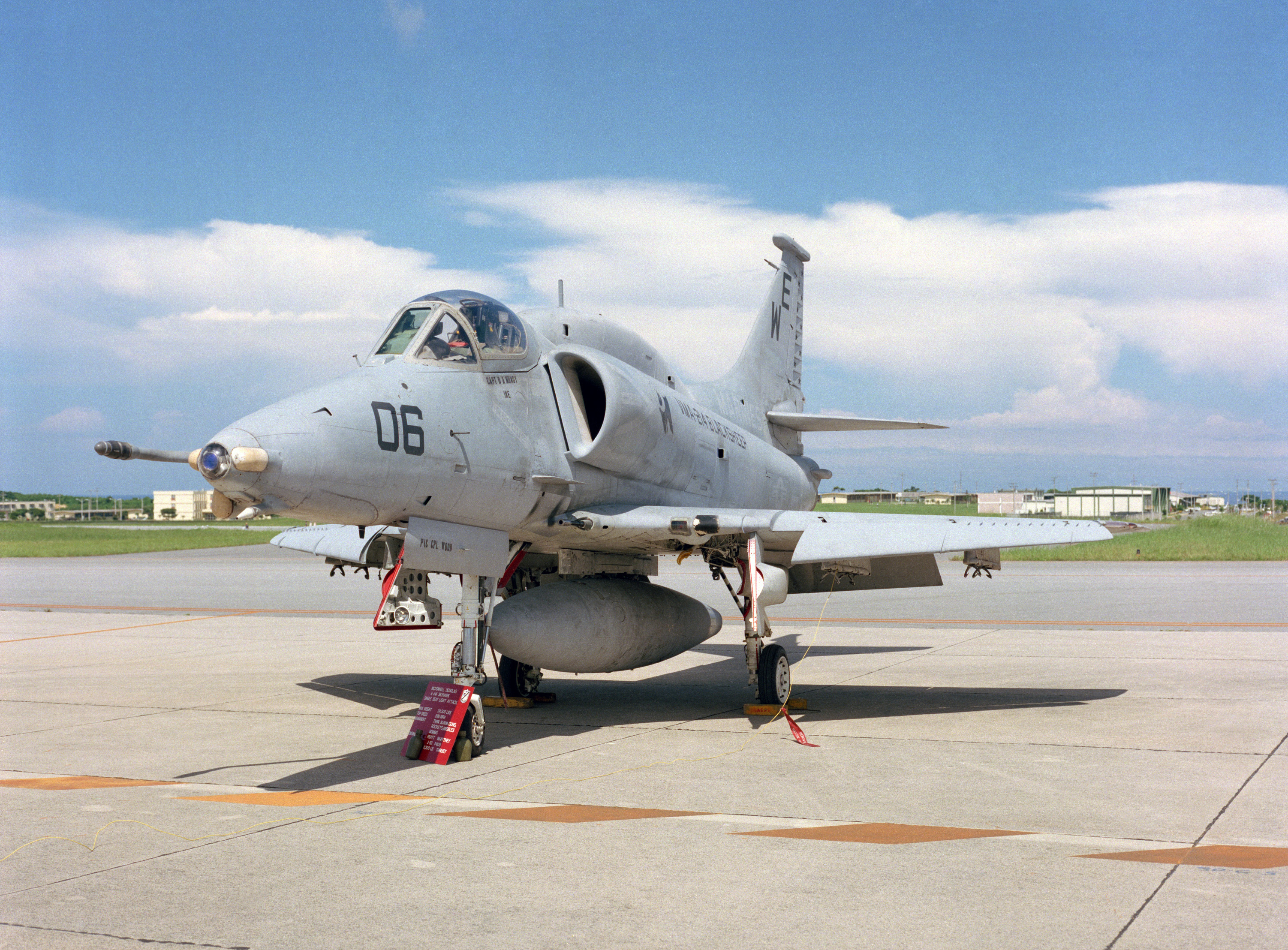 A McDonnell Douglas A-4M Skyhawk from U.S. Marine Corps attack squadron VMA-214 Blacksheep at U.S. Marine Corps Air Station Futenma, Okinawa (Japan), on 20 September 1988. Aircraft "WE-06" has the name of the pilot "Capt. D.A. Mundy IKE" written below the cokpit and "P/C Cpl. Wood" on the nosegear door.